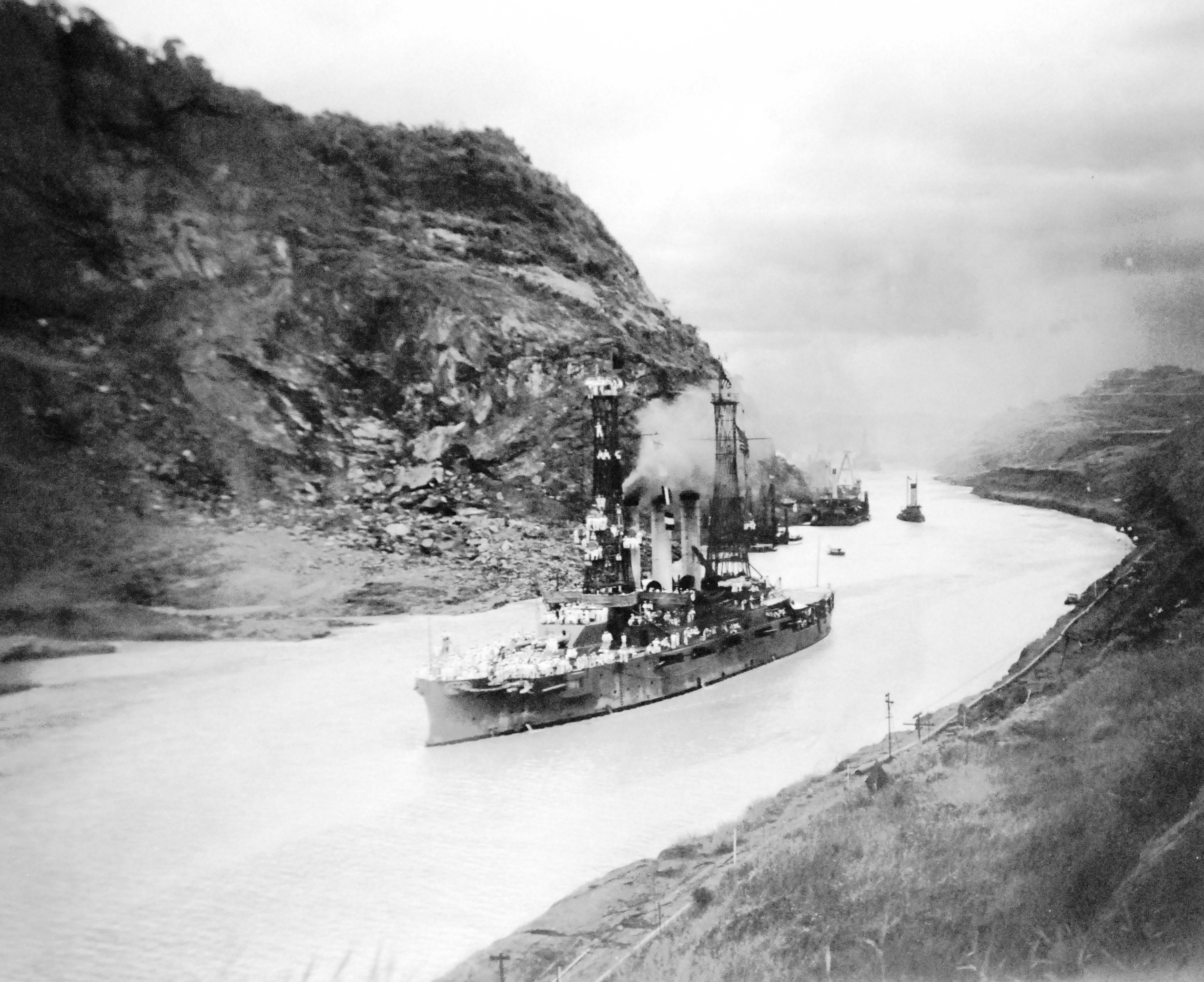 Lot 5415-3: USS Missouri (Battleship #11) passing Cucaracha Slide in the Panama Canal, July 16, 1915. Collection of Secretary of the Navy Josephus Daniels. (6/5/2015).